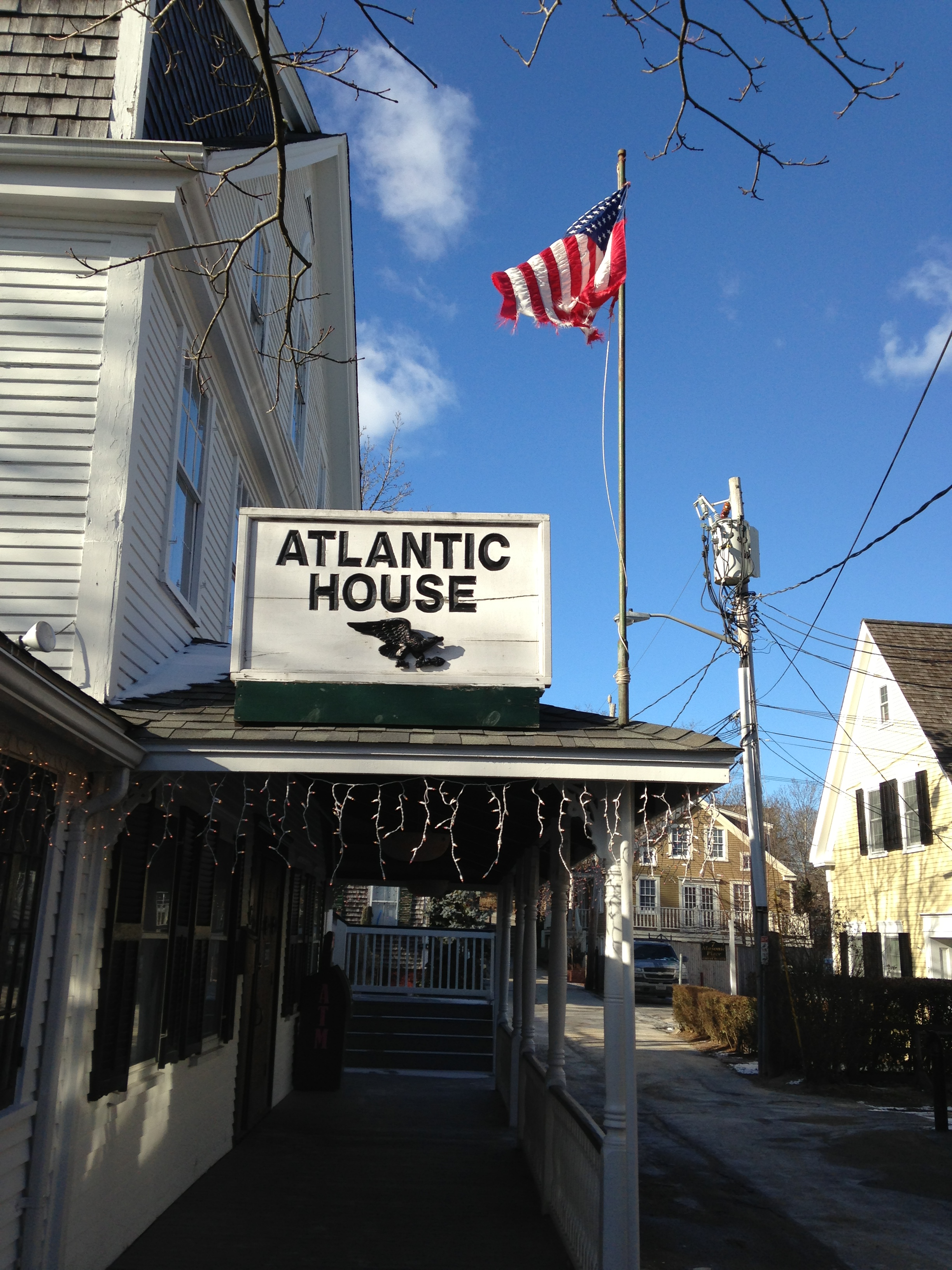 A photo of the Atlantic House in Provincetown